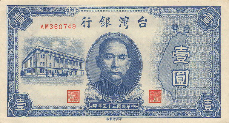 1 Old Taiwan dollars